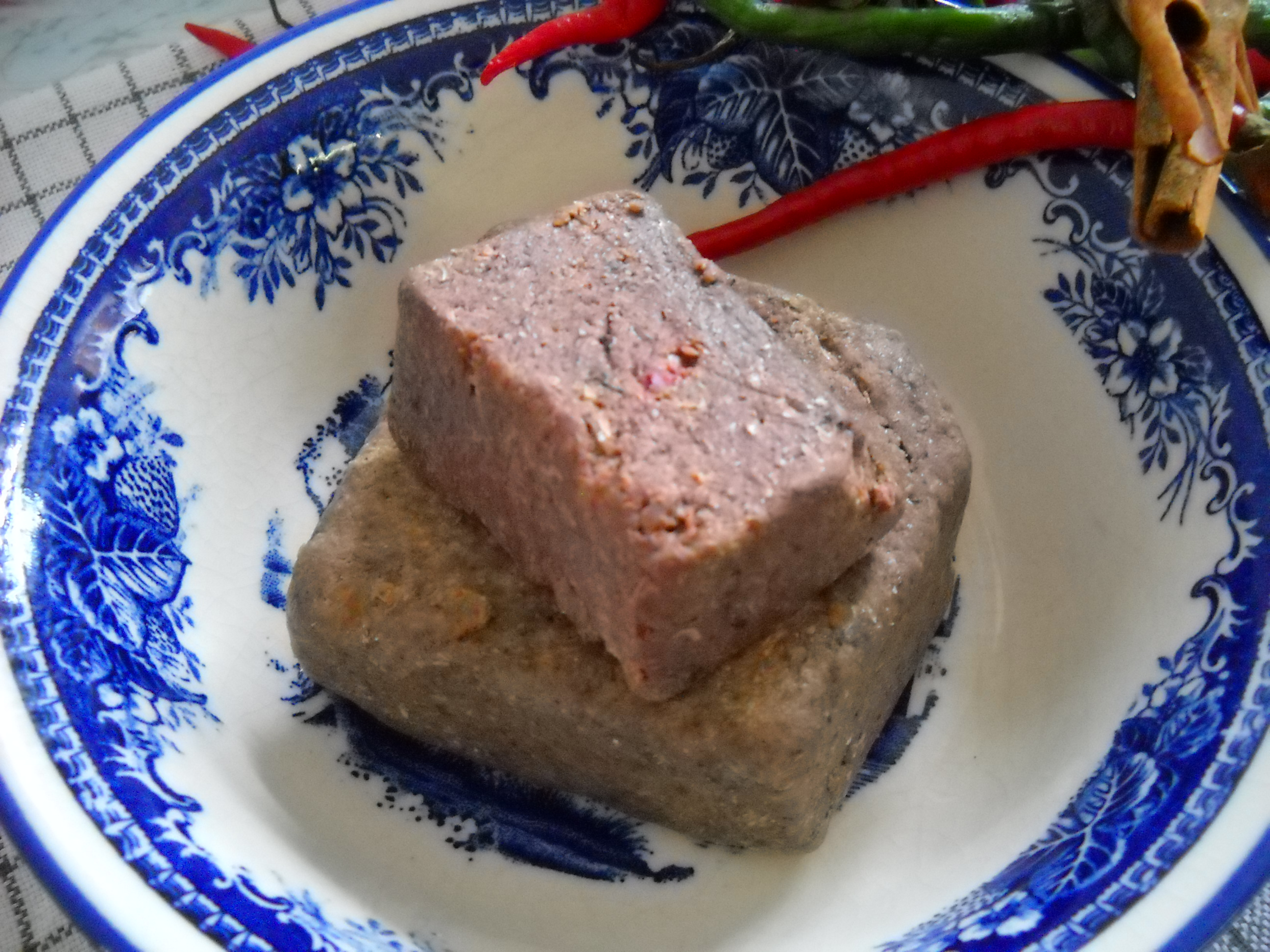 Belachan or Terasi, Shrimp paste from Bangka Island, Indonesia.